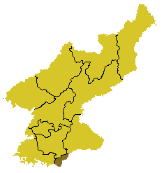 Locator map of Gaeseong (Kaesong) Province, southern North Korea.